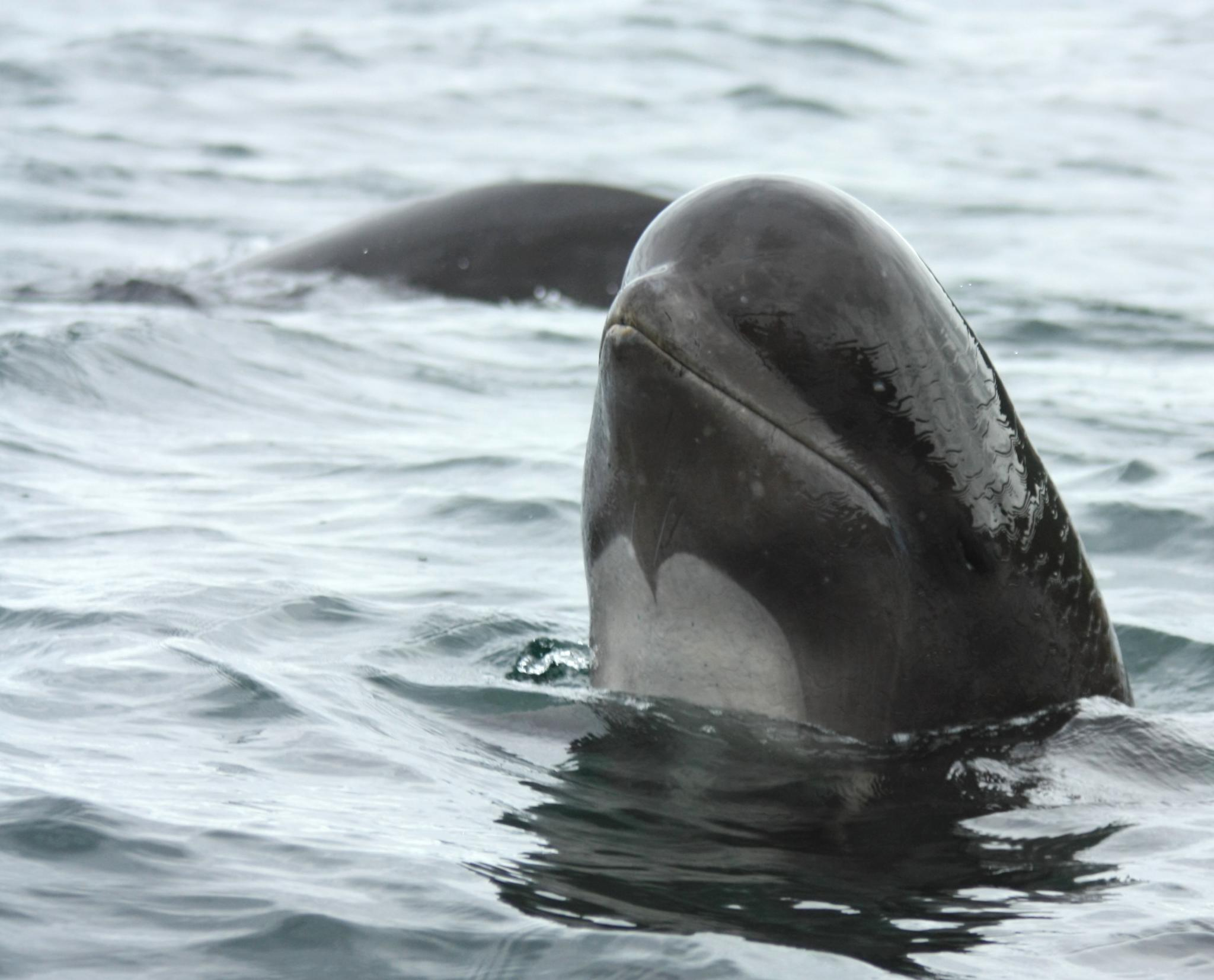 Long-finned pilot whale spyhopping in Cape Breton Island, Nova Scotia, Canada